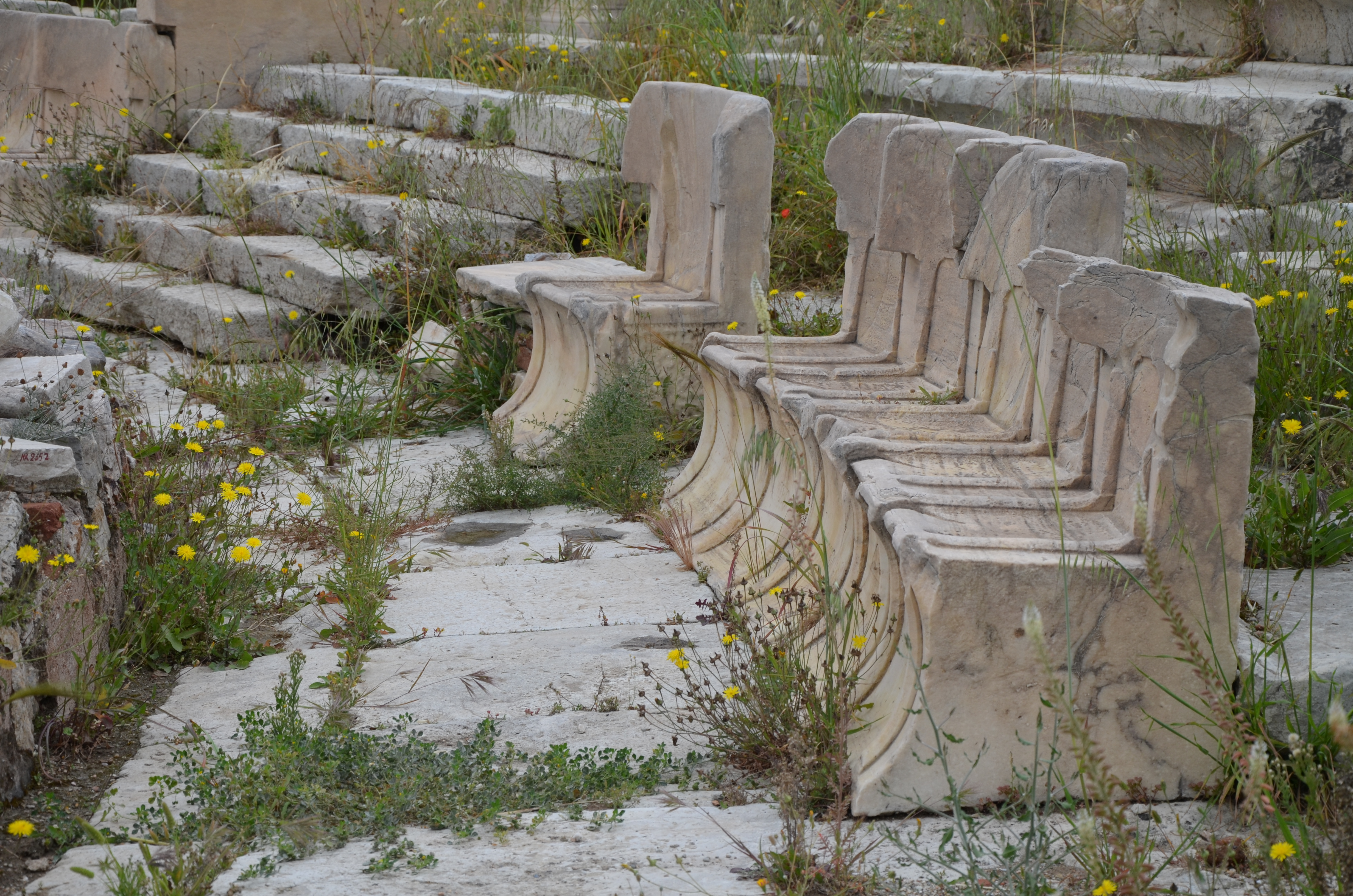 The Theater of Dionysus on the South Slope of the Acropolis, Athens, Greece